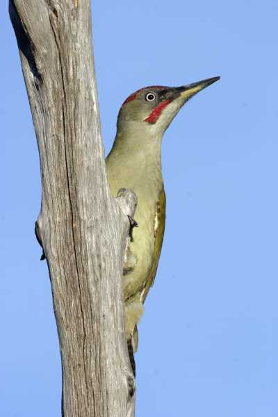 A male Iberian Woodpecker (Picus sharpei) in Madrid (Spain).